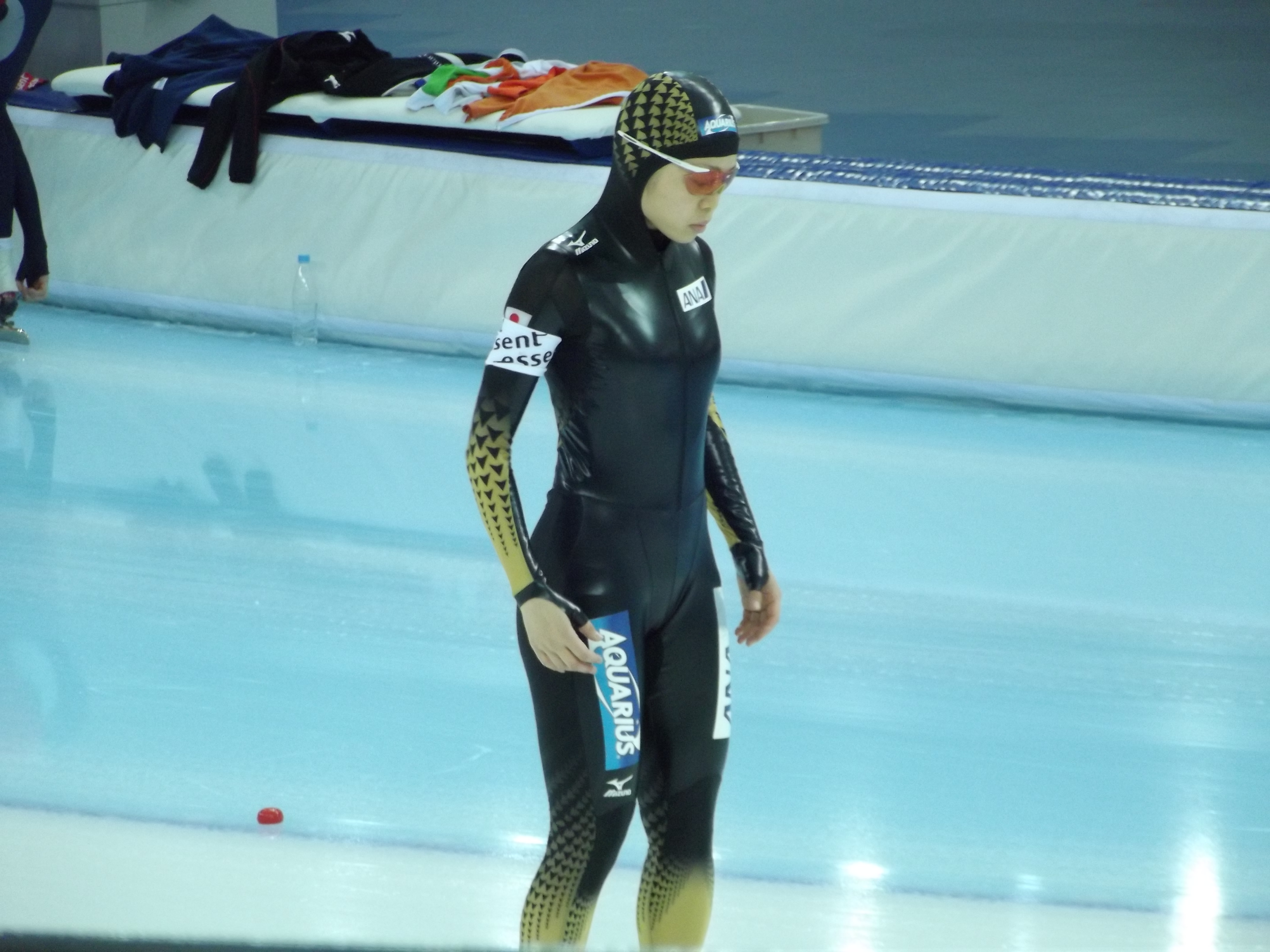 2013 World Single Distance Speed Skating Championships